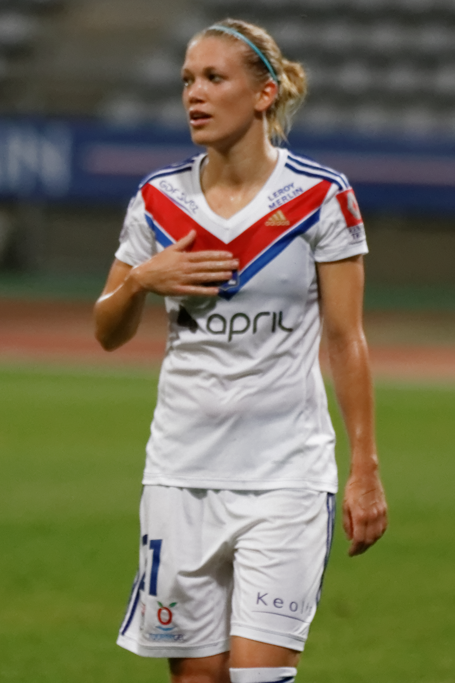 PSG-Lyon, September 29th, 2013.